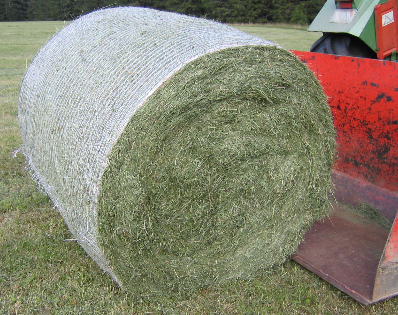 Round bale of hay (from a Welger RP220 baler)